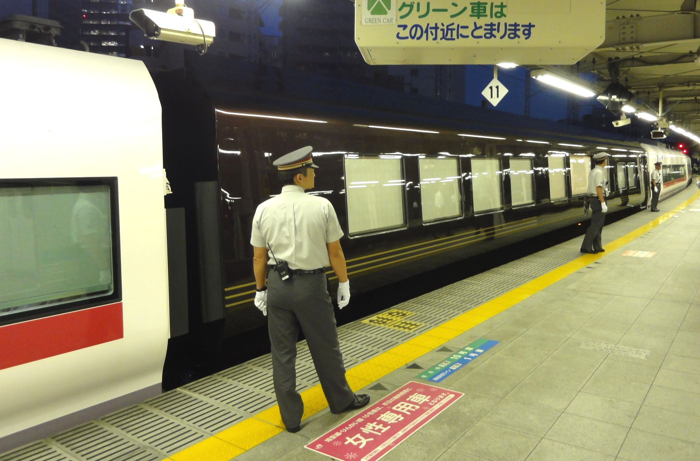 JR East E655 series "TR" imperial train coach E655-1 sandwiched in E657 series set K-1 for test-running, at Osaki Station in Tokyo